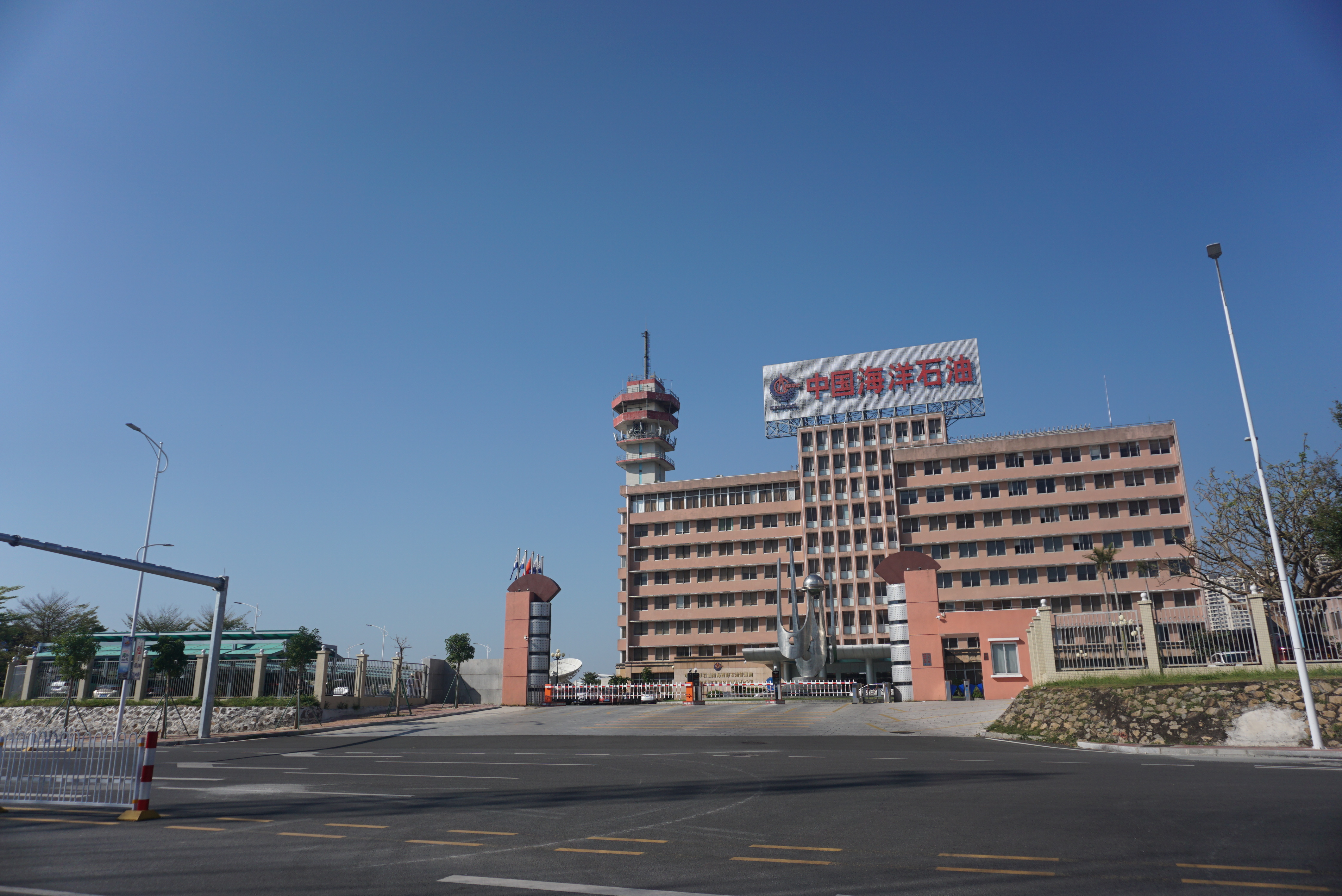 A Building of China National Offshore Oil Corporation, in Potou District, Zhanjiang, Guangdong Province